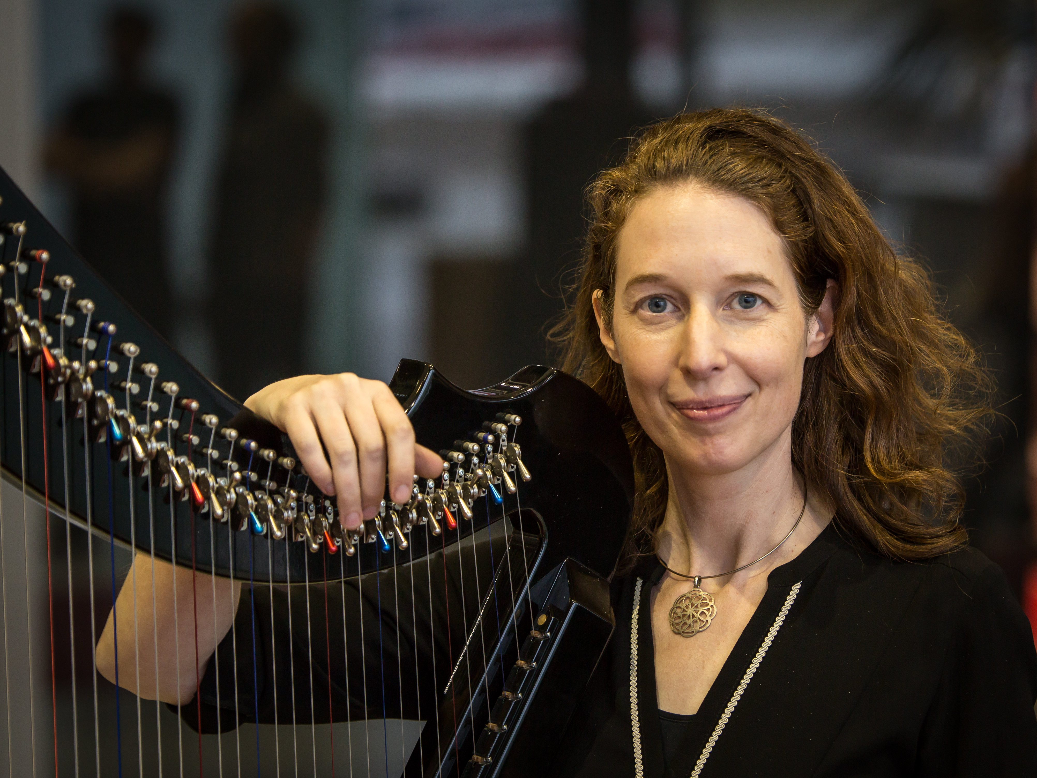 Harpist Nadia Birkenstock at the Kulturbörse Freiburg 2018